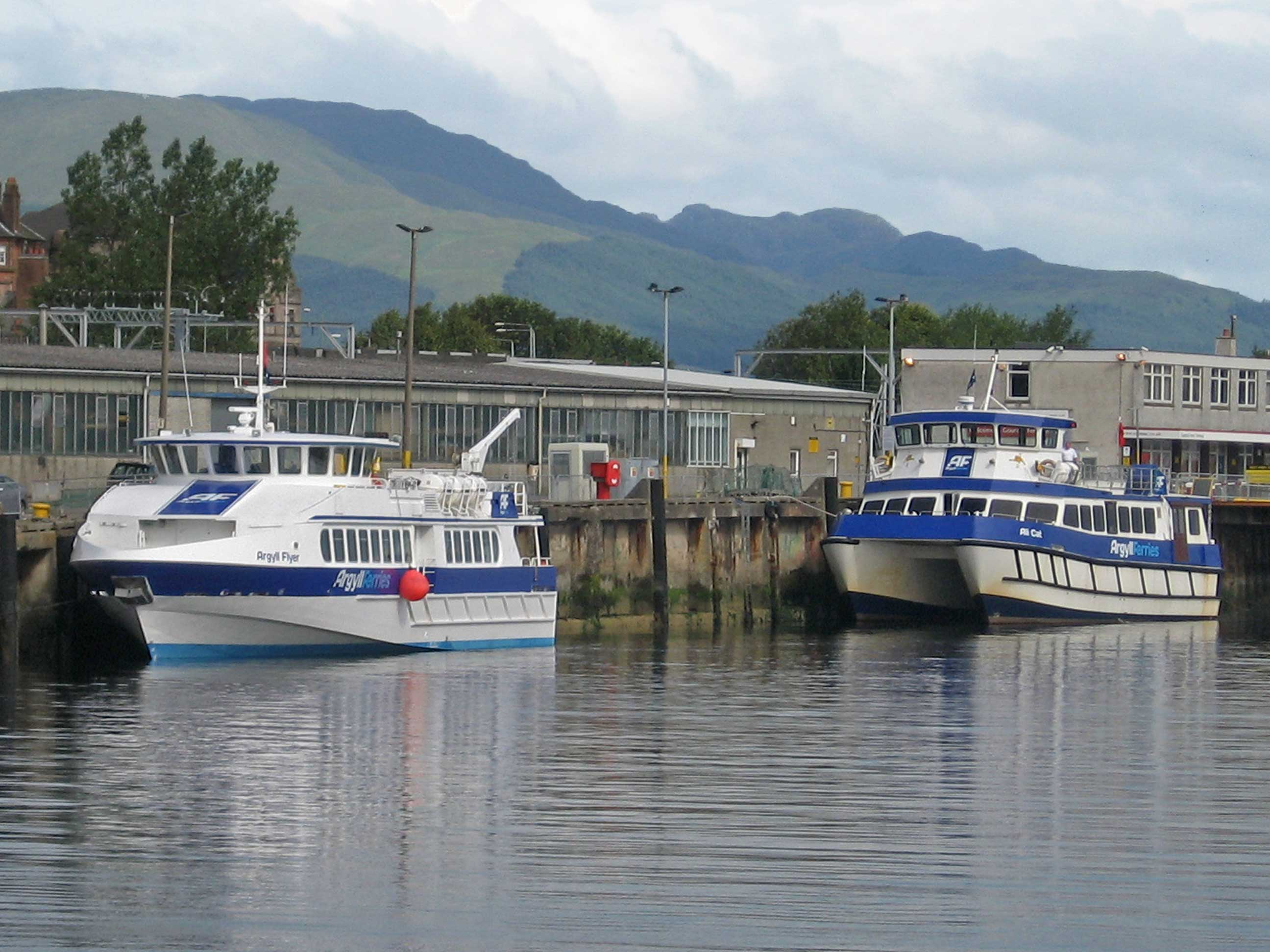 MV Ali Cat and MV Argyll Flyer at Gourock pierhead for the Argyll Ferries Ltd Dunoon-Gourock service